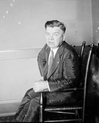 Photograph of Billy Maharg witness in Chicago Black Sox scandal